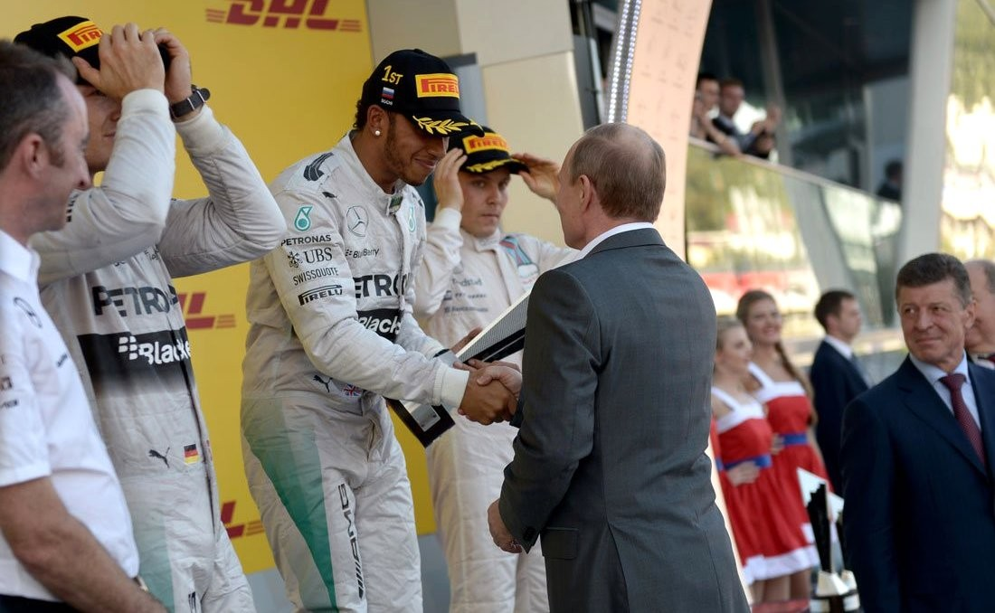 The president of Russia V. Putin congratulates the winner of a stage of the races Formula One in Sochi Lewis Hamilton. October 12, 2014.